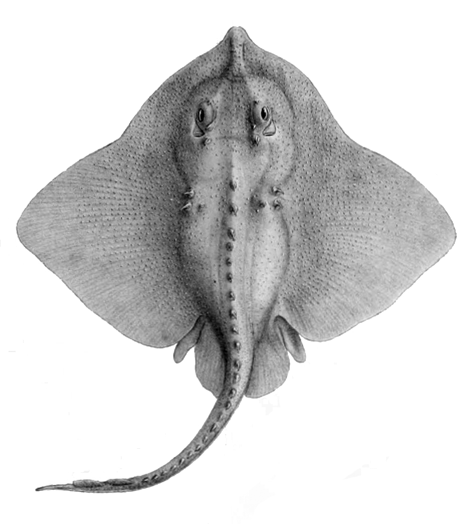 Amblyraja hyperborea